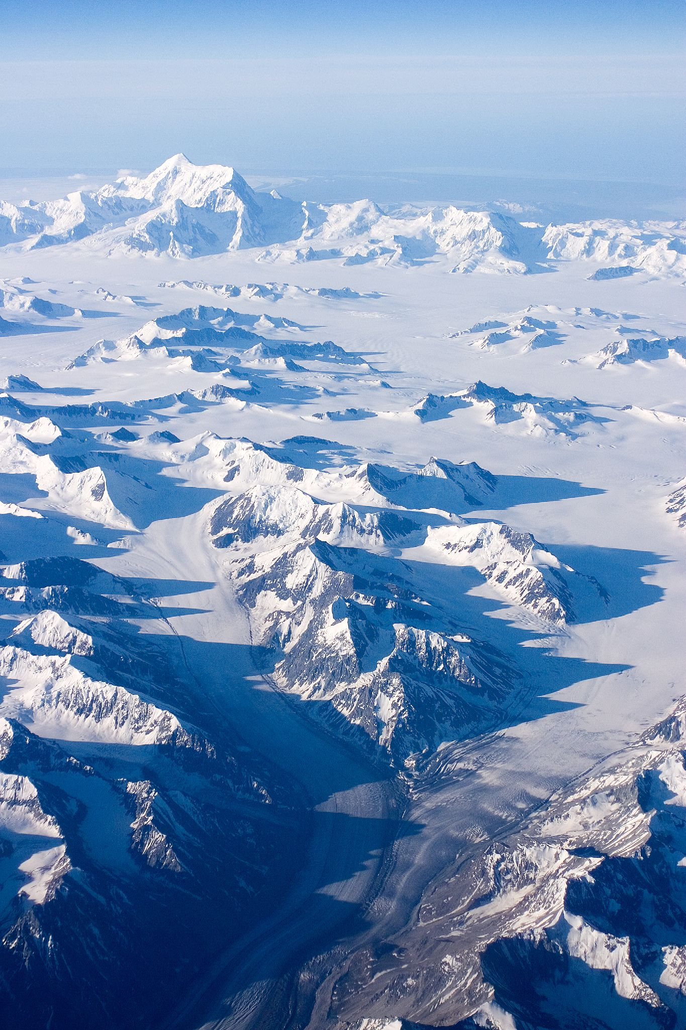 Saint Elias Mountains shot from 36000 feet Happened to wake up while flying over this mountain range on a beautifully clear day